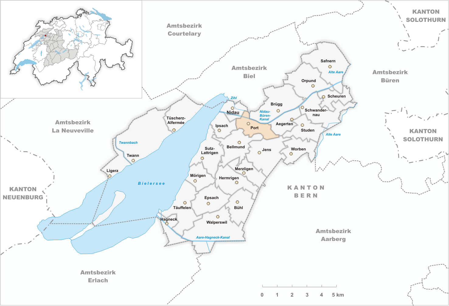 Municipality Port